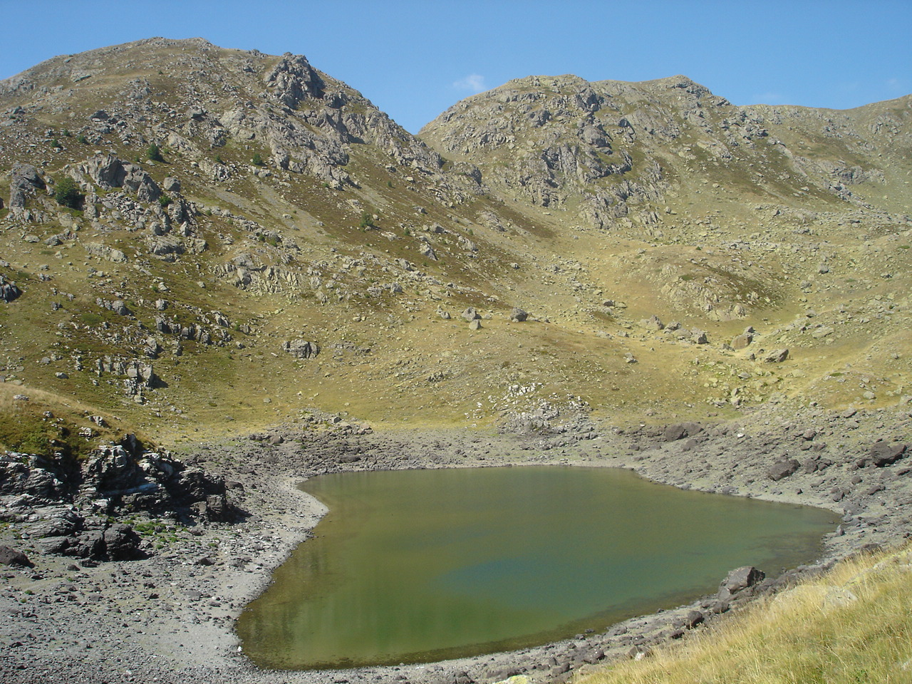 Glacial lake Vevchanska Lokva on Jablanica mountain, Macedonia